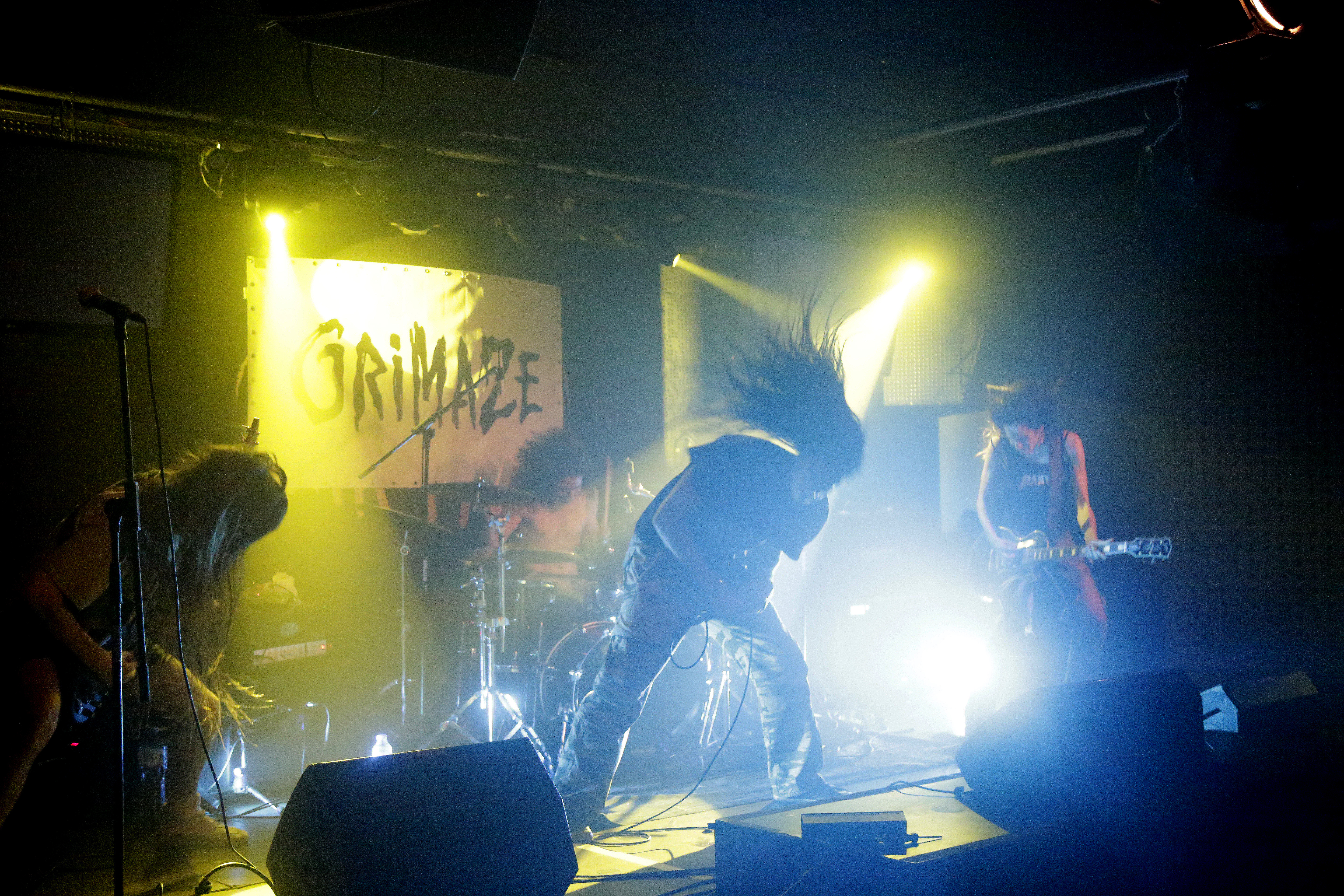 Live concert with lieVeil